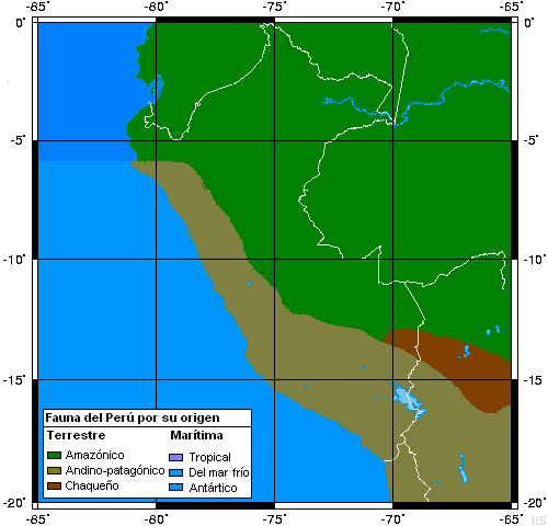 Map of Fauna in Perú.